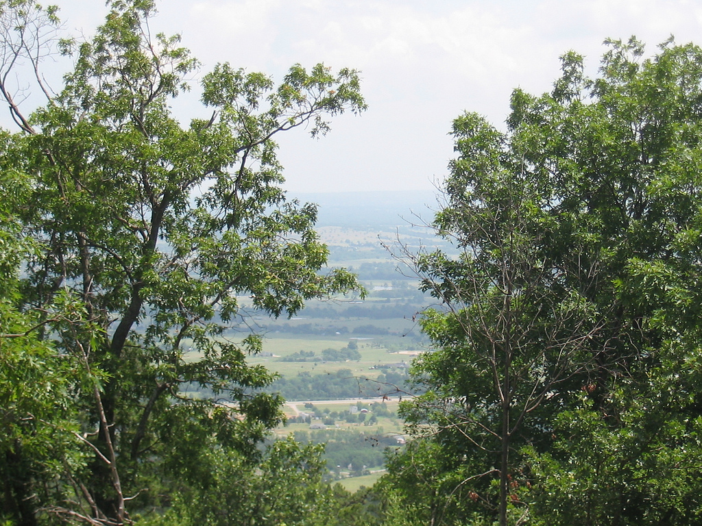 A view of Poteau Valley from Cavanal Hill, LeFlore County, Oklahoma.